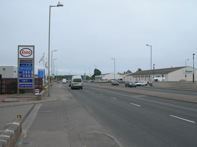 Longman Industrial Estate. Heading out of Inverness on the A82, towards the A9 junction.